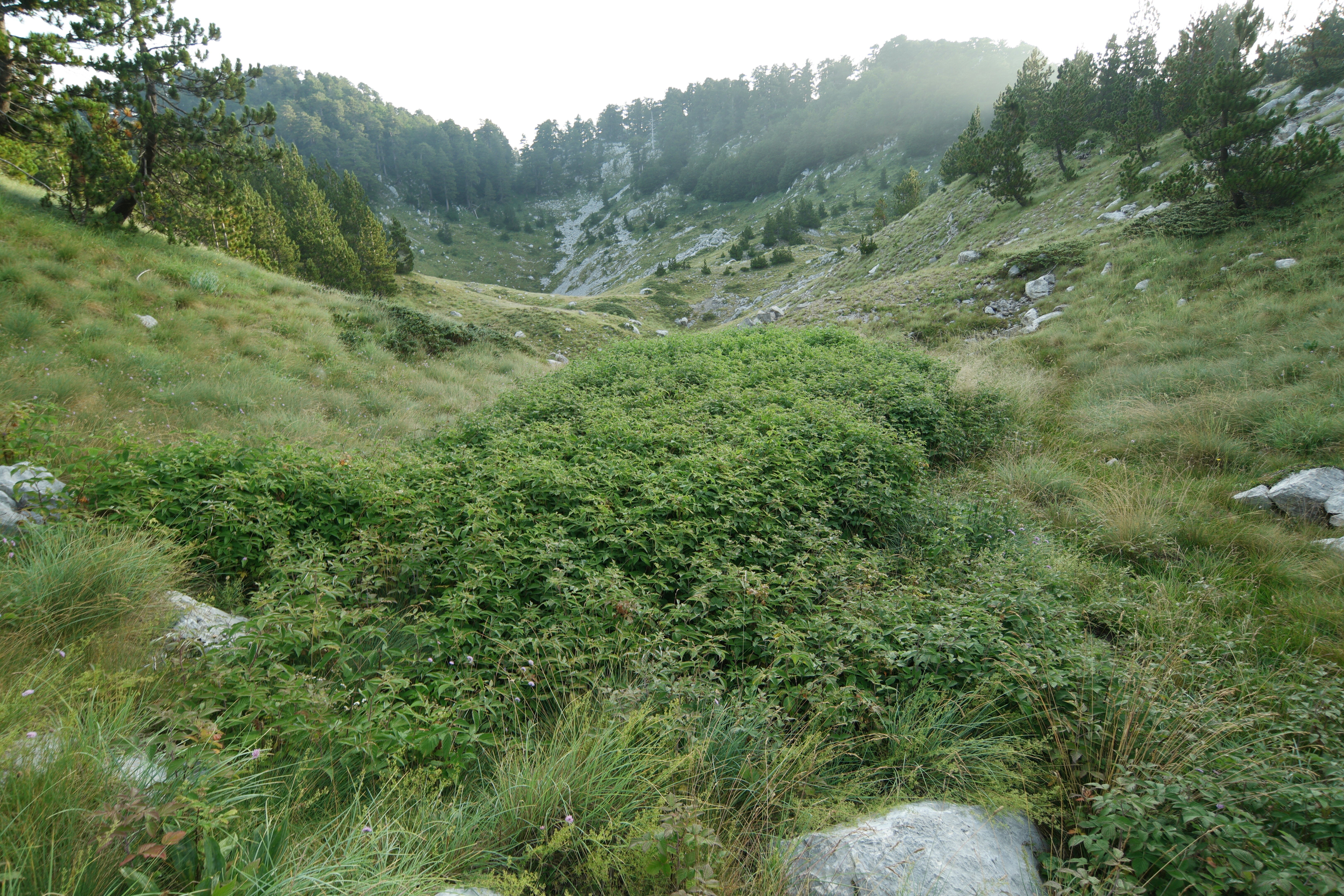 Rubus idaeus in subalpine site, Opovani do periglacial cirque Bijela gora Mt. Orjen